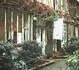 private photo